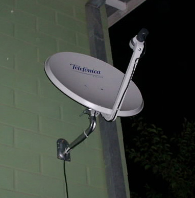 Antenna of Telefónica's Digital TV Service.